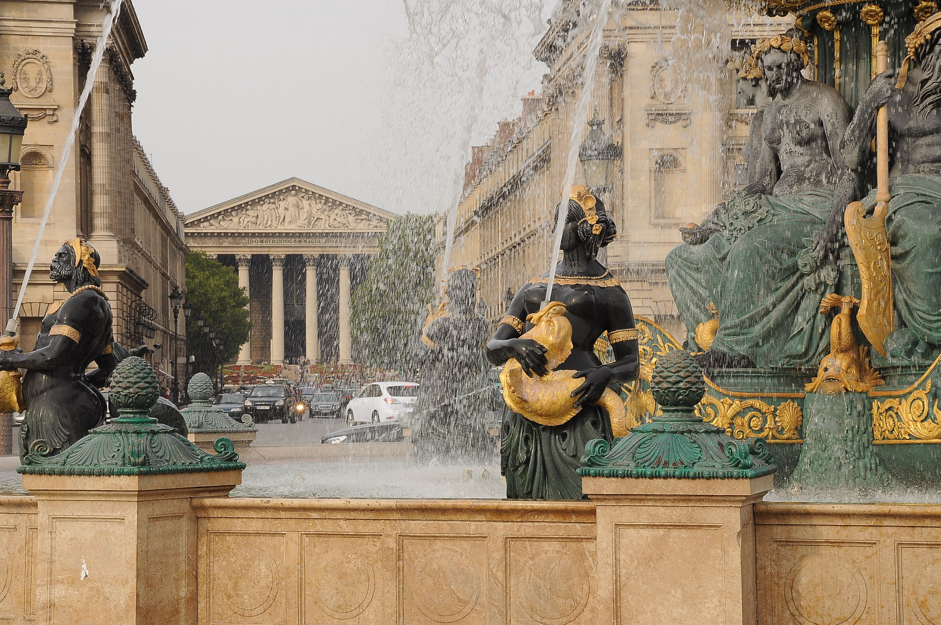 Place de la Concorde at Paris, France